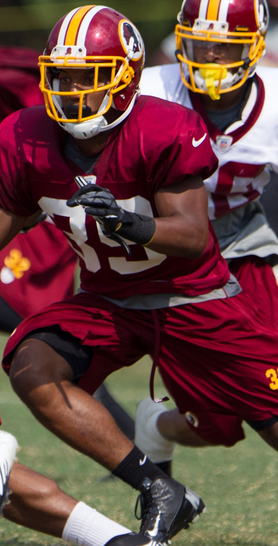 Richard Crawford at Washington Redskins Training Camp August 2, 2012